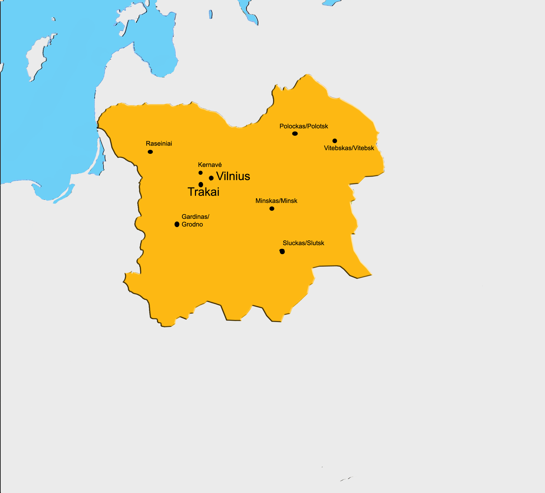 Historical map of Lithuania at 1316-1341